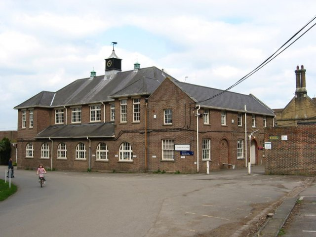 Oaklands College. The main admin building of Oaklands College Smallford campus - just East of St Albans